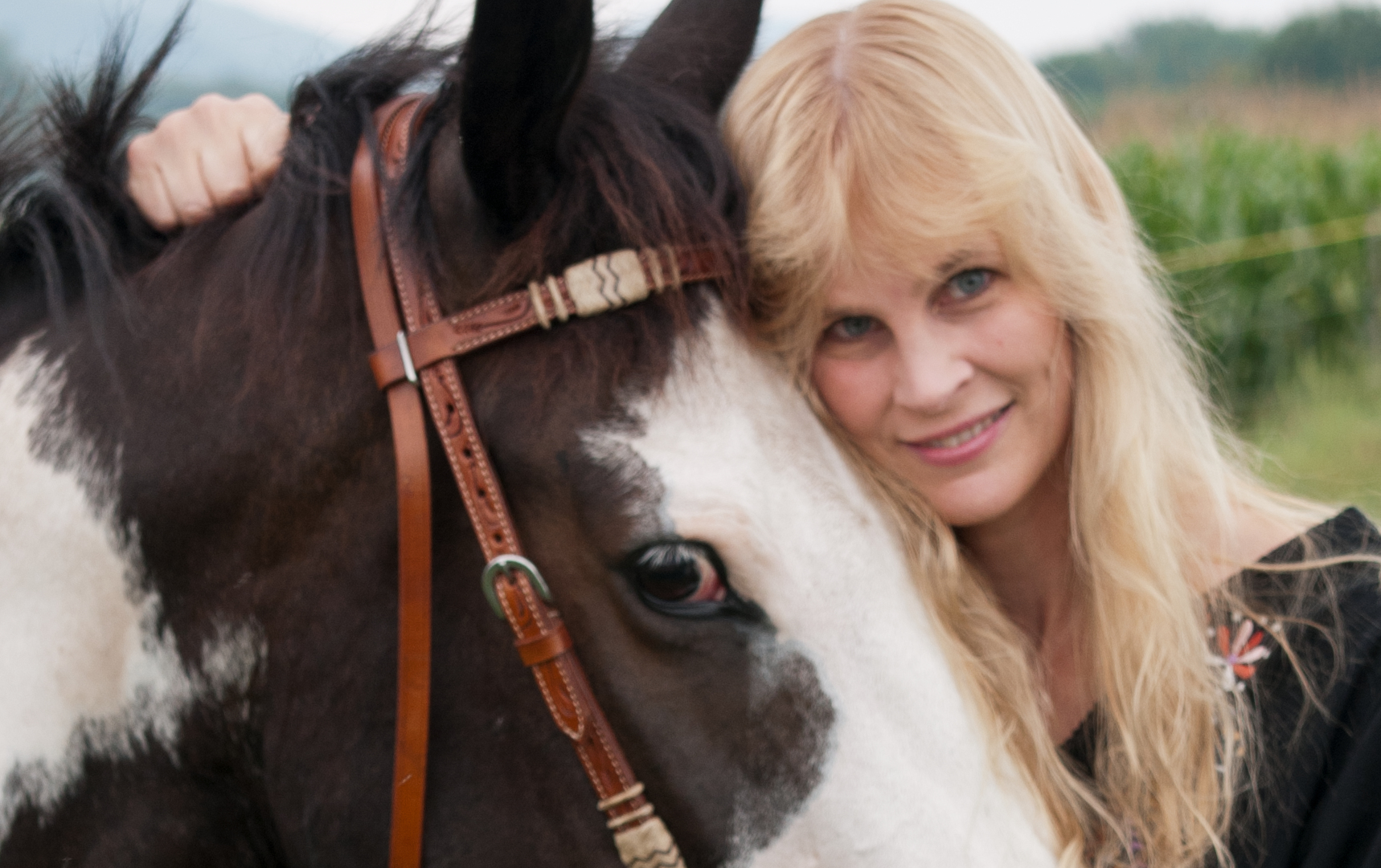 Bonnie Gruenberg, midwife, artist, photographer and author, with her horse in Pennsylvania, 2012